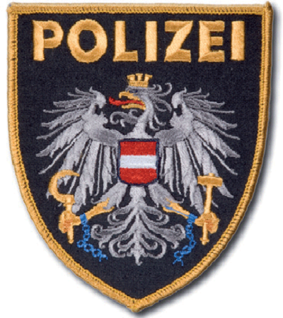 This image is in the public domain according to Austrian copyright law because it is part of a law, ordinance or official decree issued by an Austrian federal or state authority, or because it is of predominantly official use. (§7 UrhG) To uploader: Please provide where the image was first published and who created it. Ärmelabzeichen (Bundespolizei)